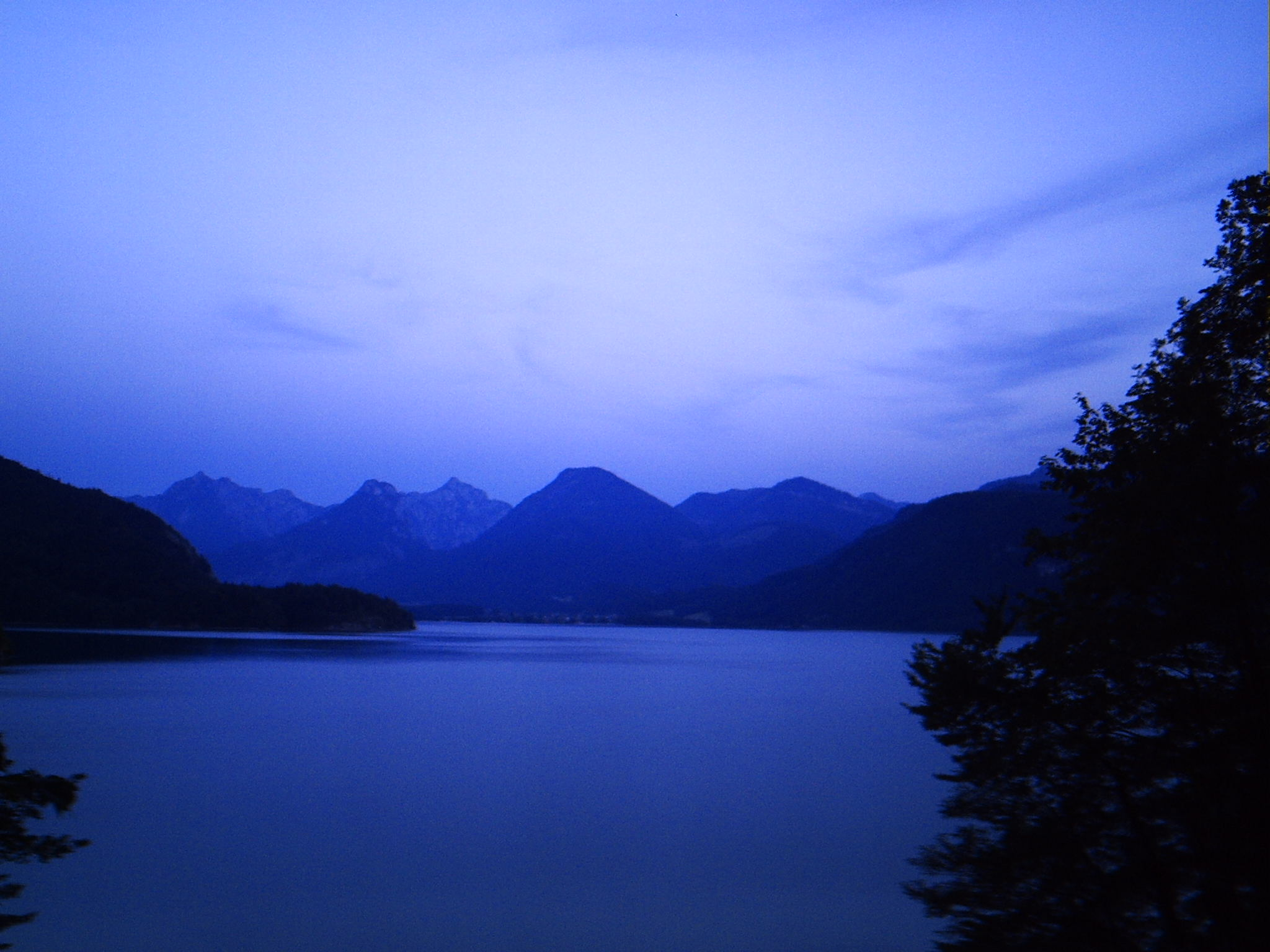 The Austrian lake Wolfgangsee in the evening time.